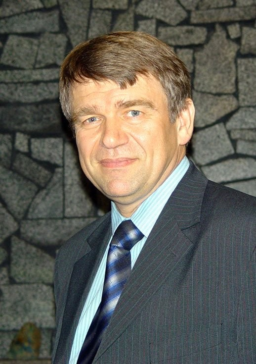 Valentin Nikolaevich Parmon - russian chemist, the member of RAS